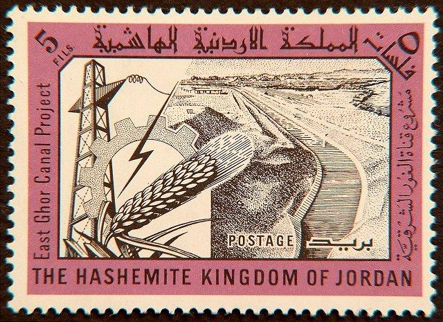 This is a stamp produced in 1963, showing the East Ghor Canal Project. Constructed with foreign aid from USAID, the Canal is one example of how environmental-related issues in Jordan rely on international assistance.